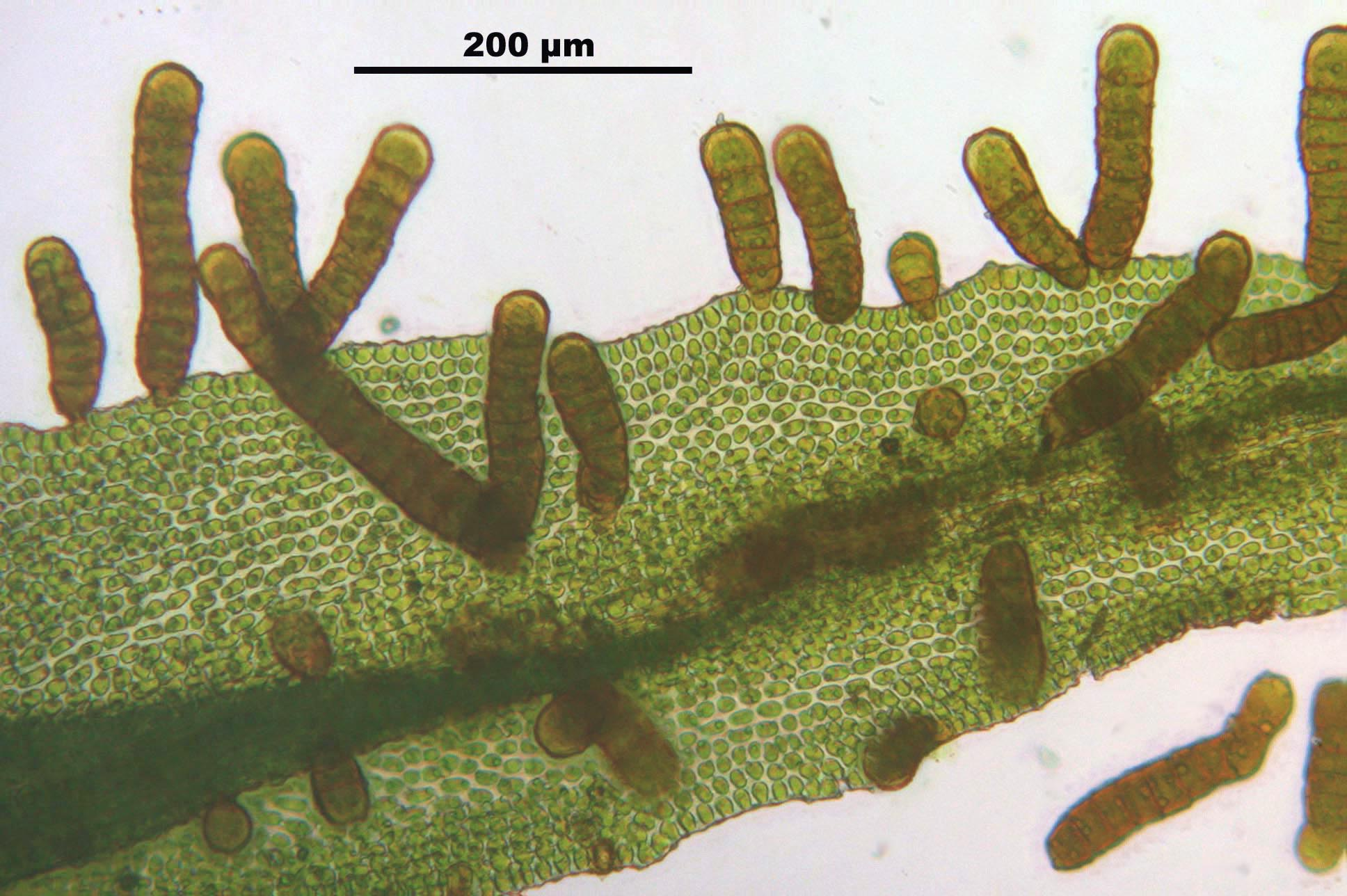 Orthotrichum lyellii